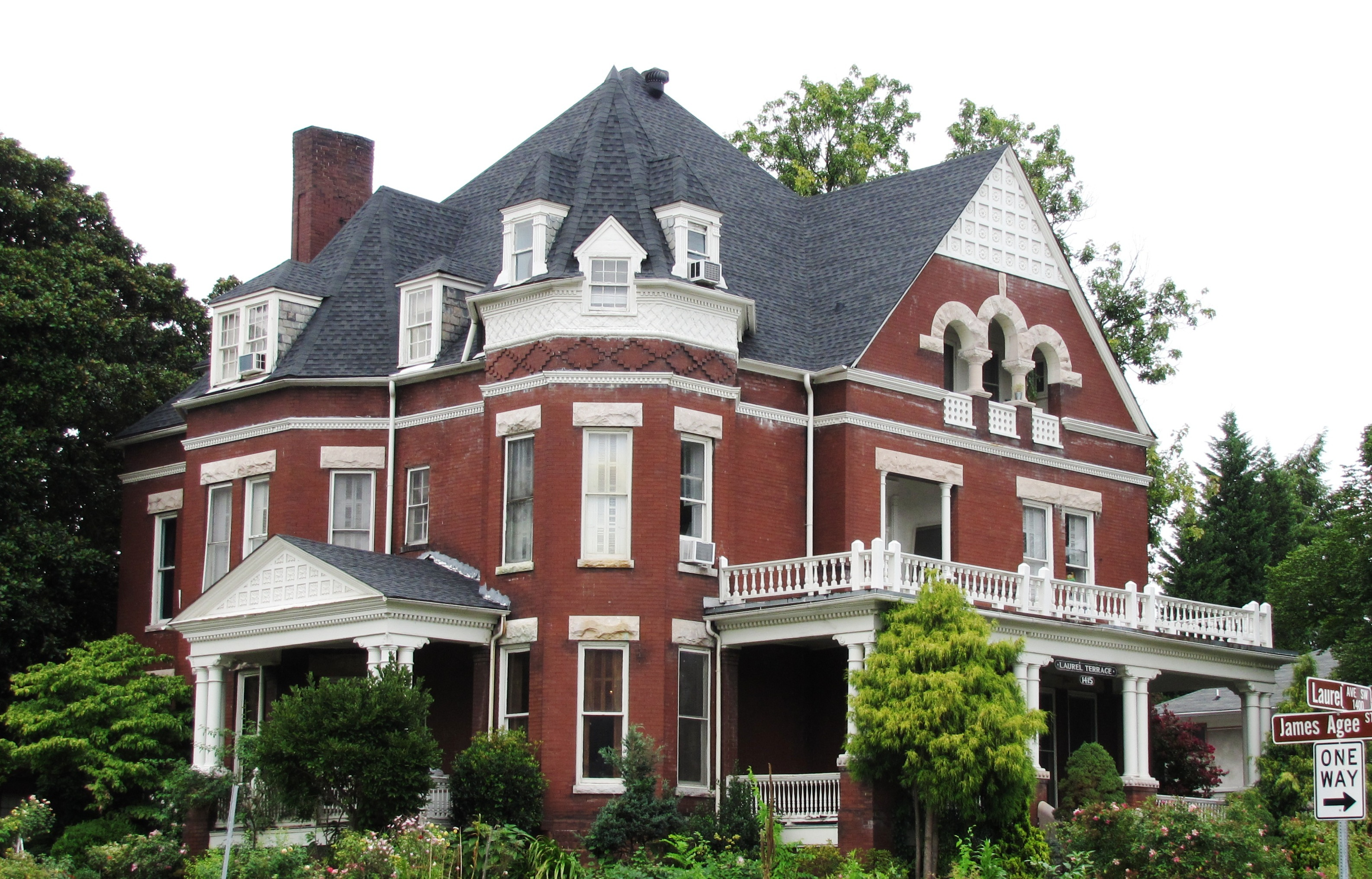 Laurel Terrace (1415 Laurel Avenue) in the Fort Sanders neighborhood of Knoxville, Tennessee, USA. Built in 1894 by candy manufacturer Martin Luther Ross, this house is now a contributing property within the NRHP-listed Fort Sanders Historic District.